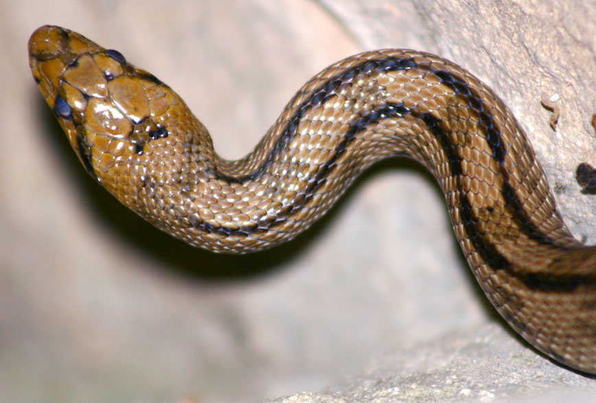 Head of a snake (Elaphe scalaris) with a macro lens